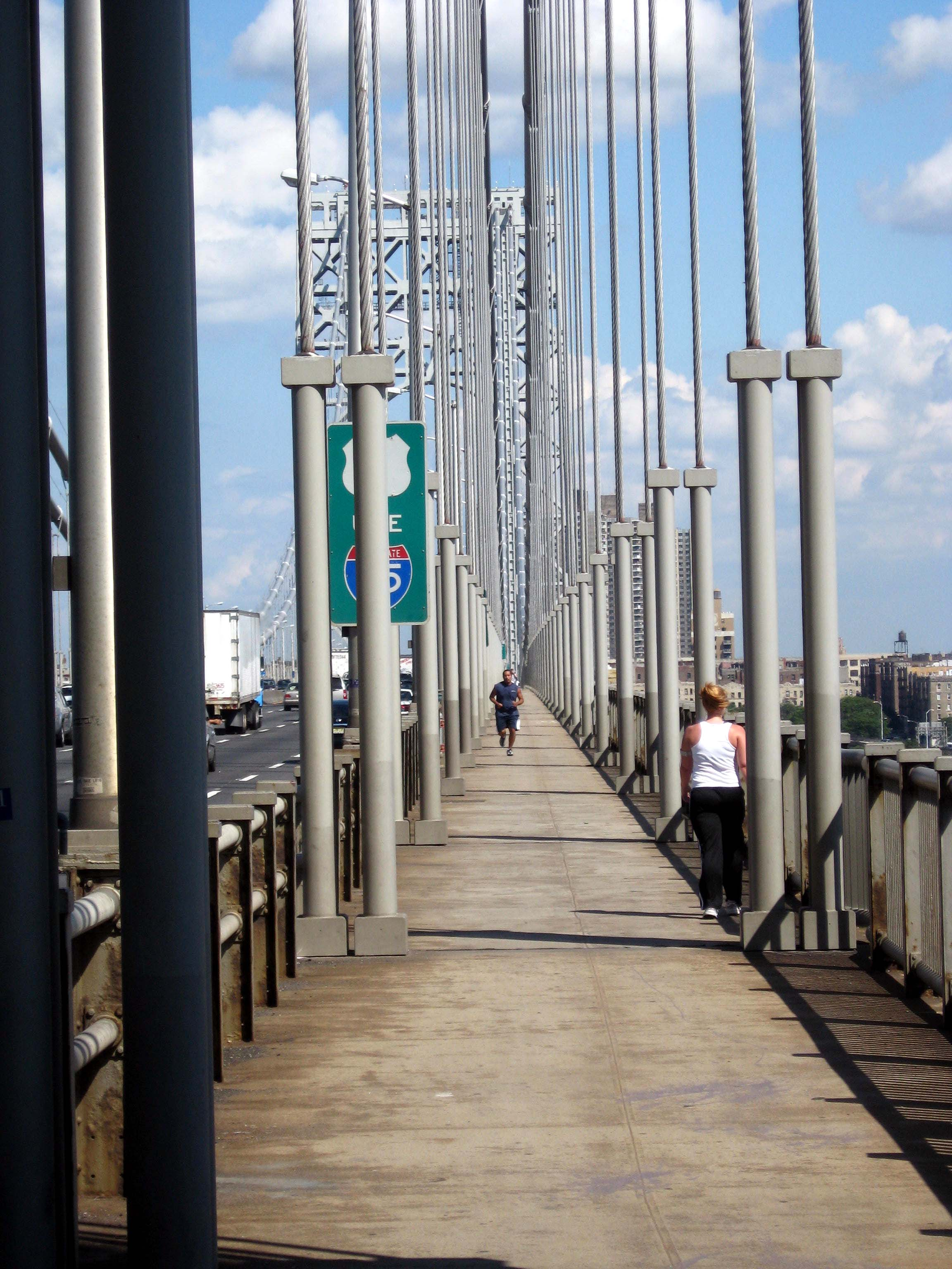 Looking east on a sunny early afternoon at Category:George Washington Bridge southern walkway